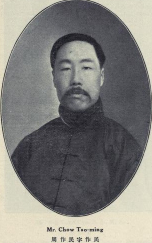 Zhou Zuomin (Chou Tzo-min) (1884 - 1955)